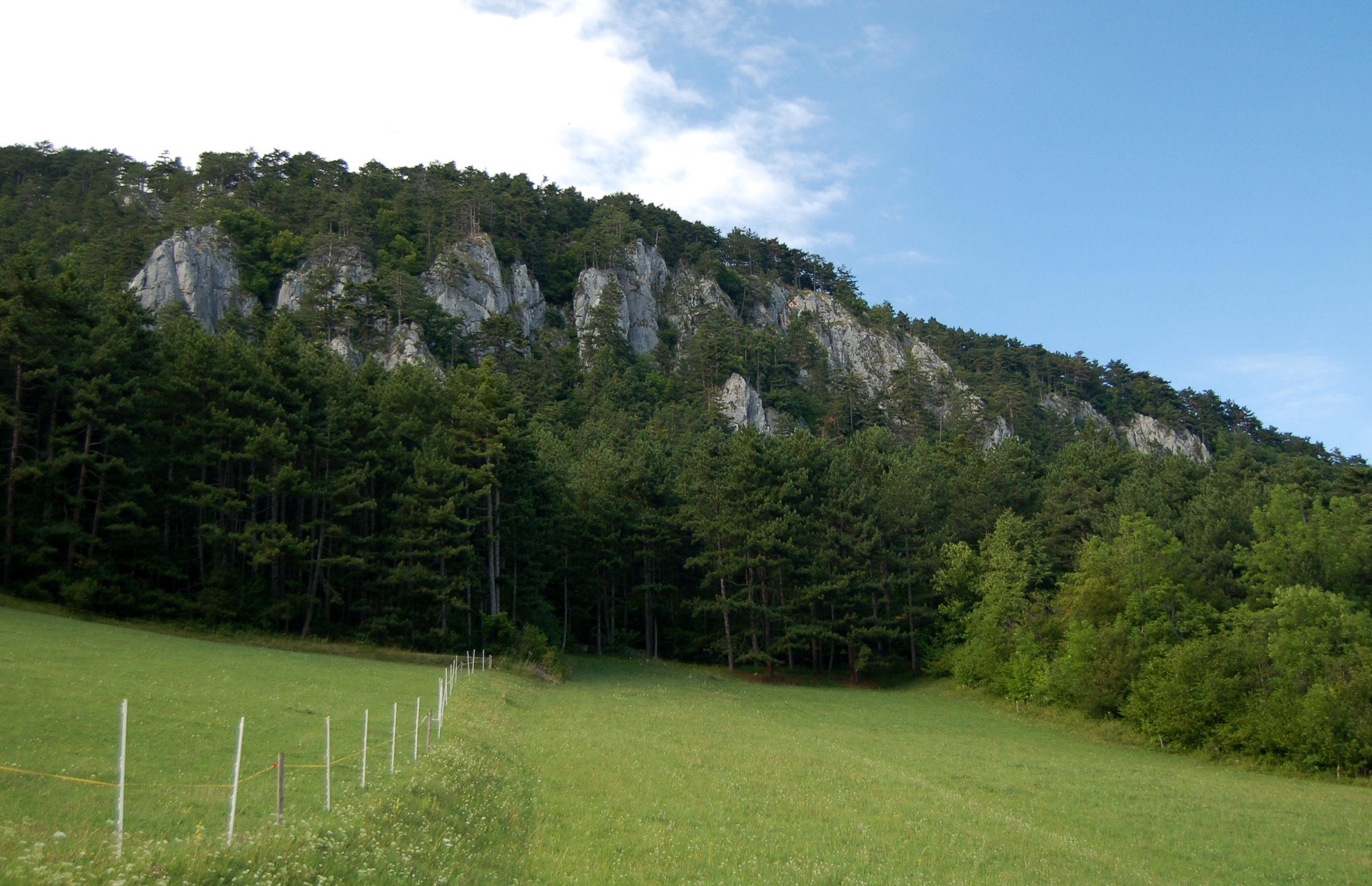 Flatzer Wand, a group of rocks north side over the small village of Flatz, part of municipality Ternitz, Lower Austria. It is part of the nature park Naturpark Sierningtal-Flatzer Wand.